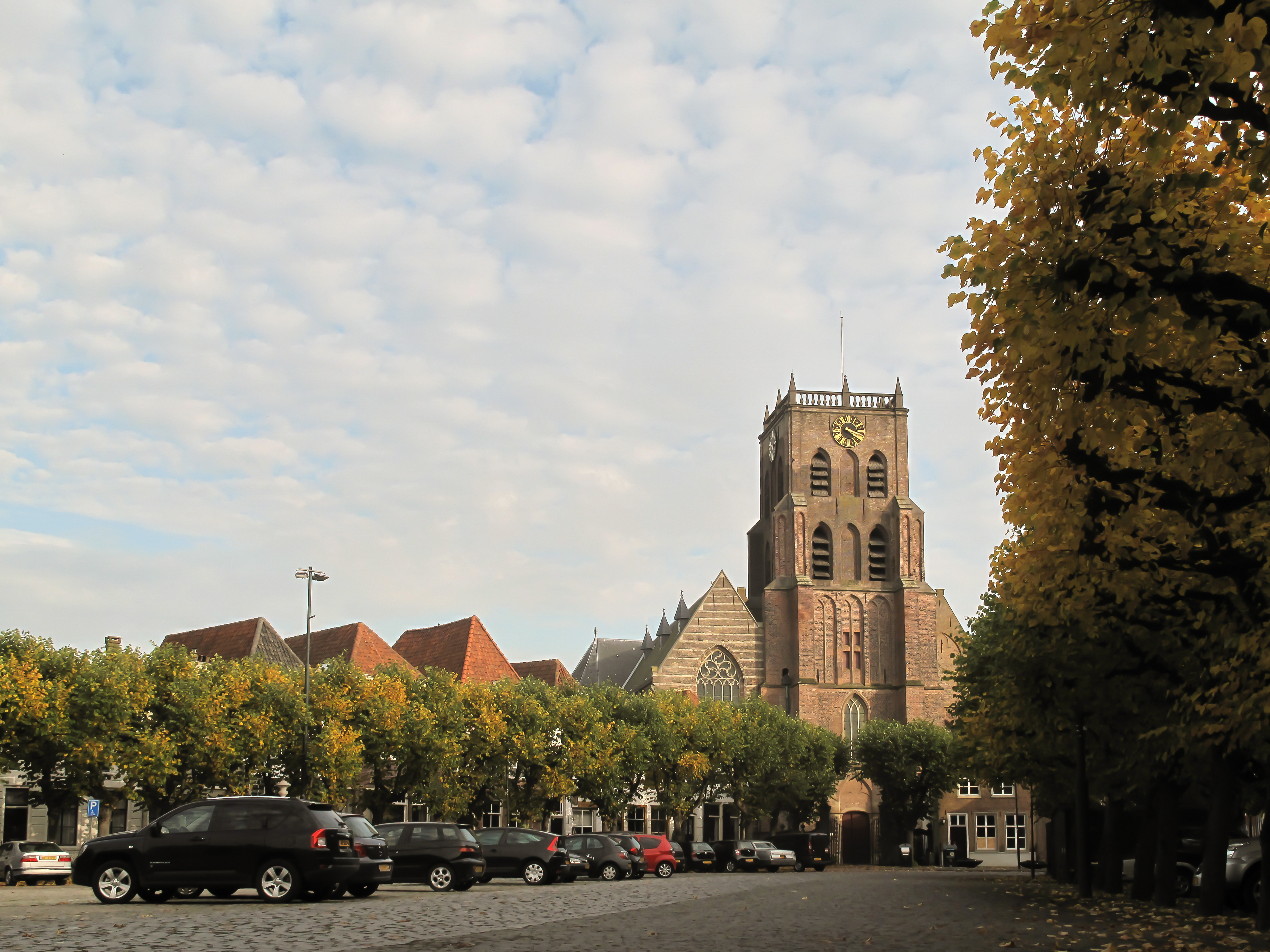 Geertruidenberg, church (de Geertruidskerk) in the street